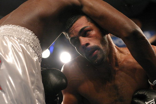 Carlos Quintana W UD 12 Paul Williams